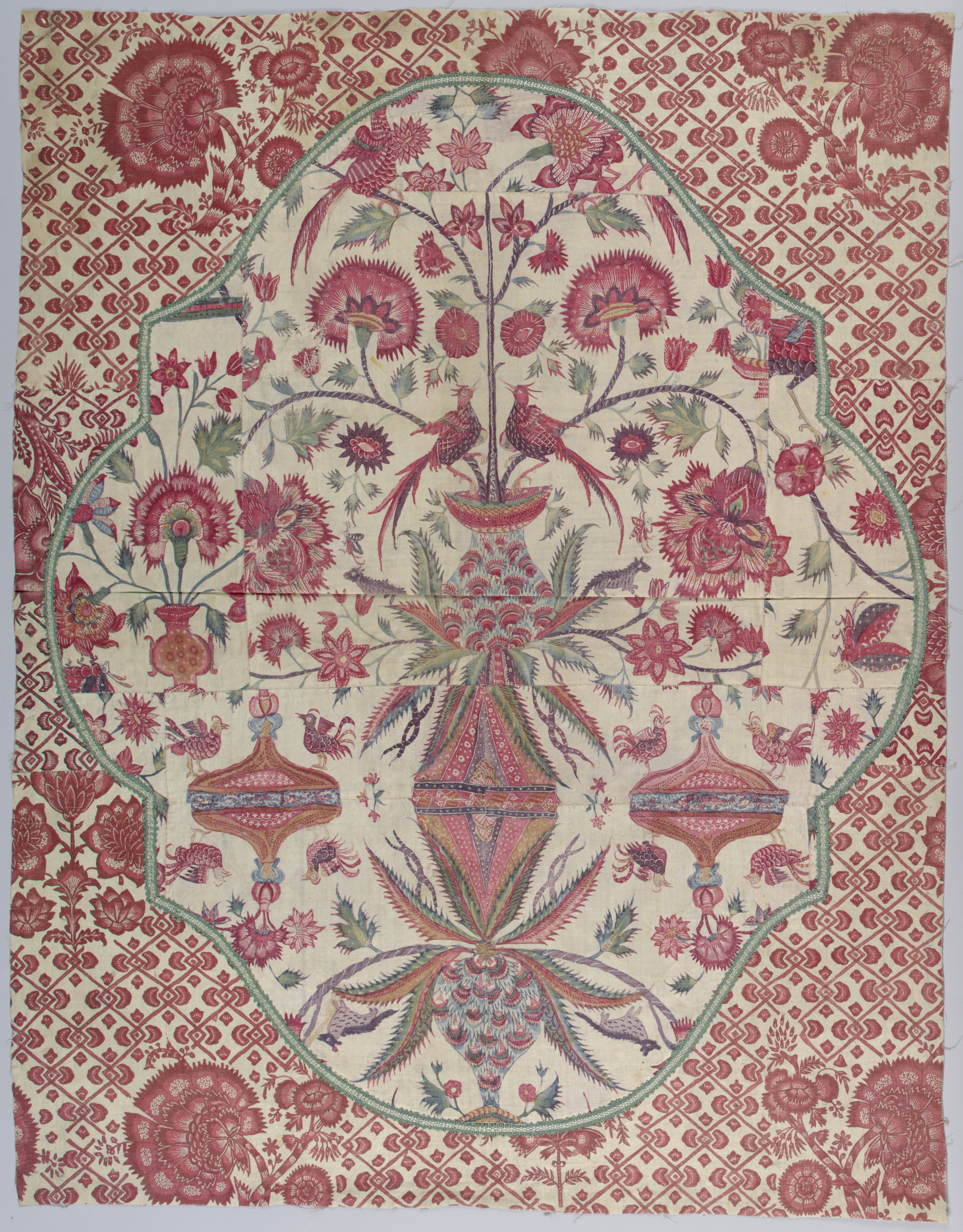 Shaped cartouche pieced from a palampore. Background of red and white chintz. Green and white braid applied to outline the edges of the shape.